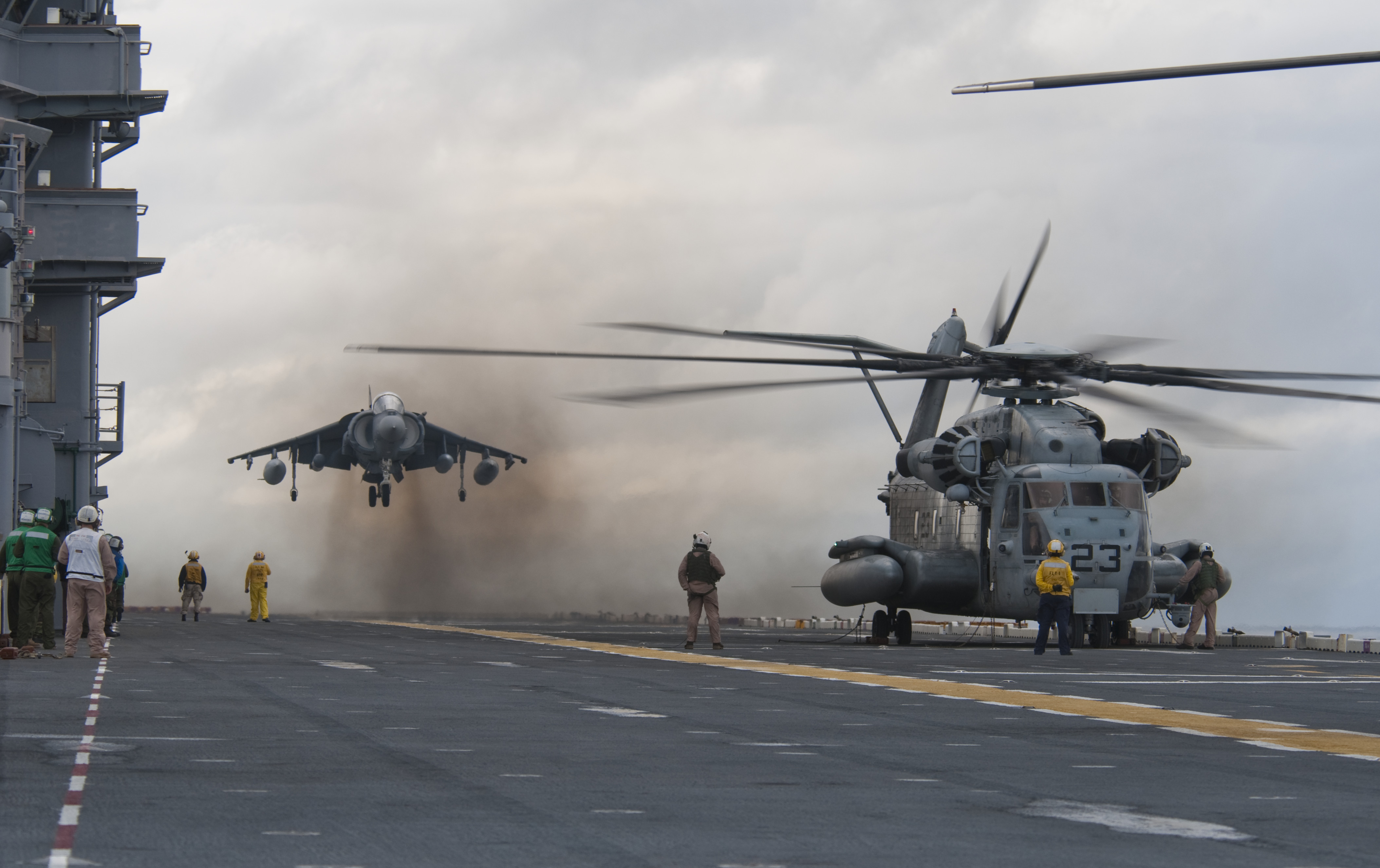 ATLANTIC OCEAN (Oct. 26, 2009) An AV-8 Harrier from Marine Attack Squadron (VMA) 223 lands next to an CH-53E Super Stallion helicopter aboard the amphibious assault ship USS Nassau (LHA 4) during flight operations. Nassau is participating in a Composite Unit Training Exercise (COMPTUEX). COMPTUEX is designed to provide realistic training environments for U.S. naval forces that closely replicate the operational challenges routinely encountered during military operations worldwide. (U.S. Navy photo by Mass Communication Specialist 1st Class Brien Aho/Released)